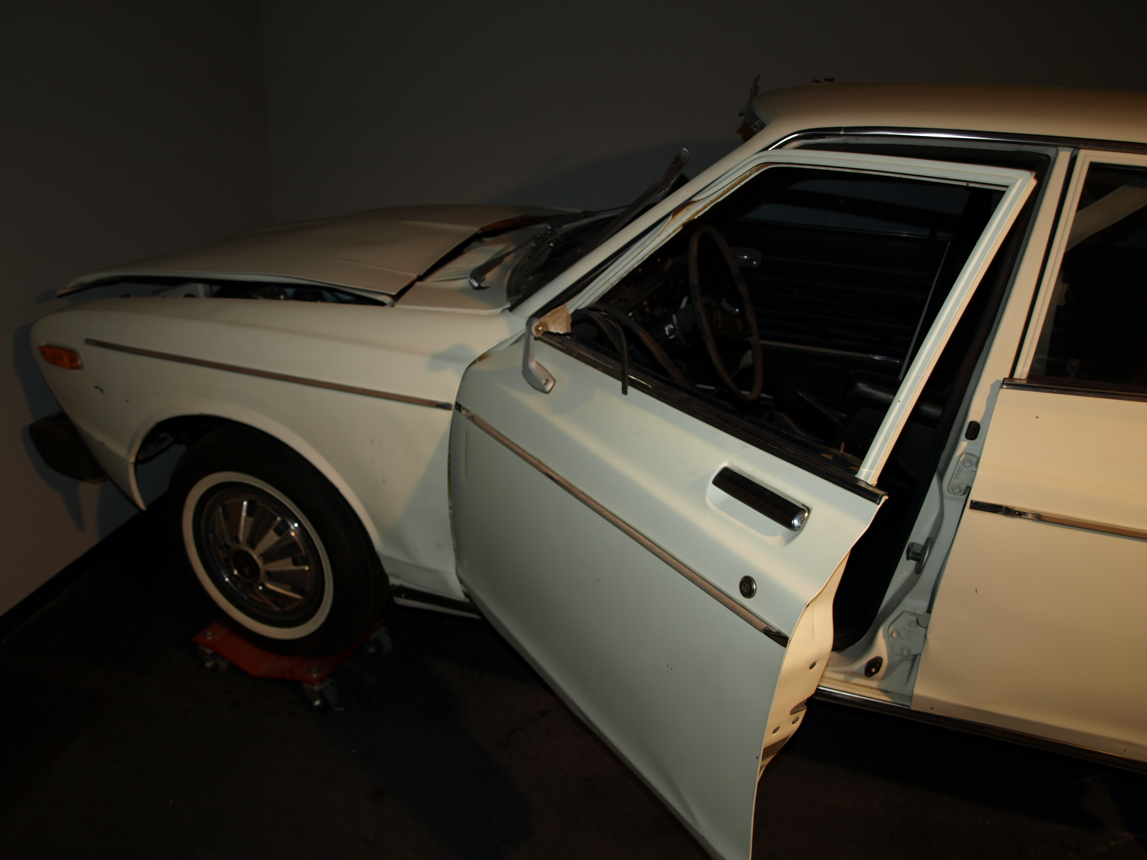 The damaged 1976 Datsun 710 in which reporter Don Bolles was fatally injured by a car bomb, photographed on display in the Newseum.